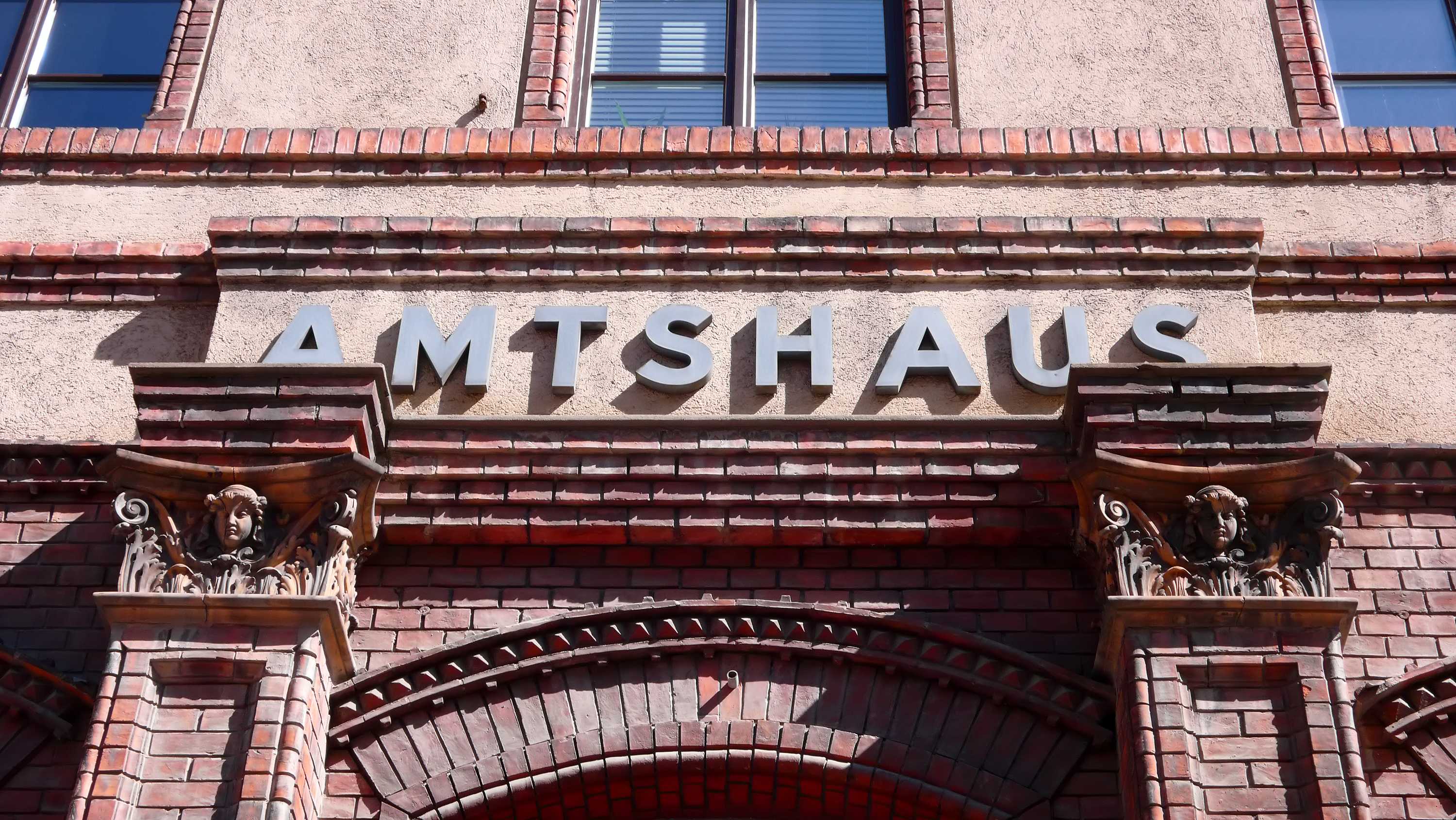 Amtshaus Grabnergasse in Vienna Mariahilf